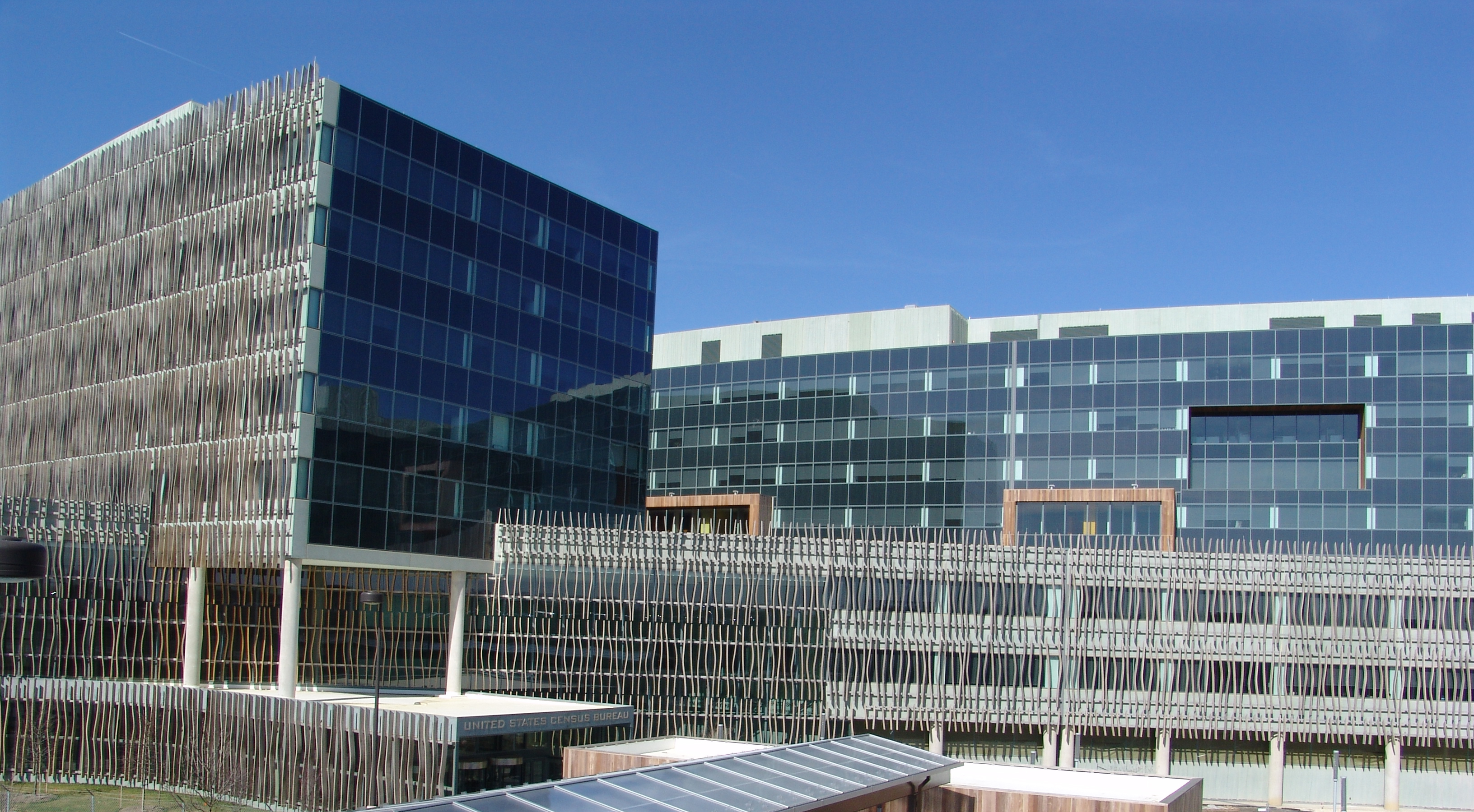 Partial view of the headquarters building of the United States Census Bureau in Suitland, Maryland. Over 4,000 people work in the building.